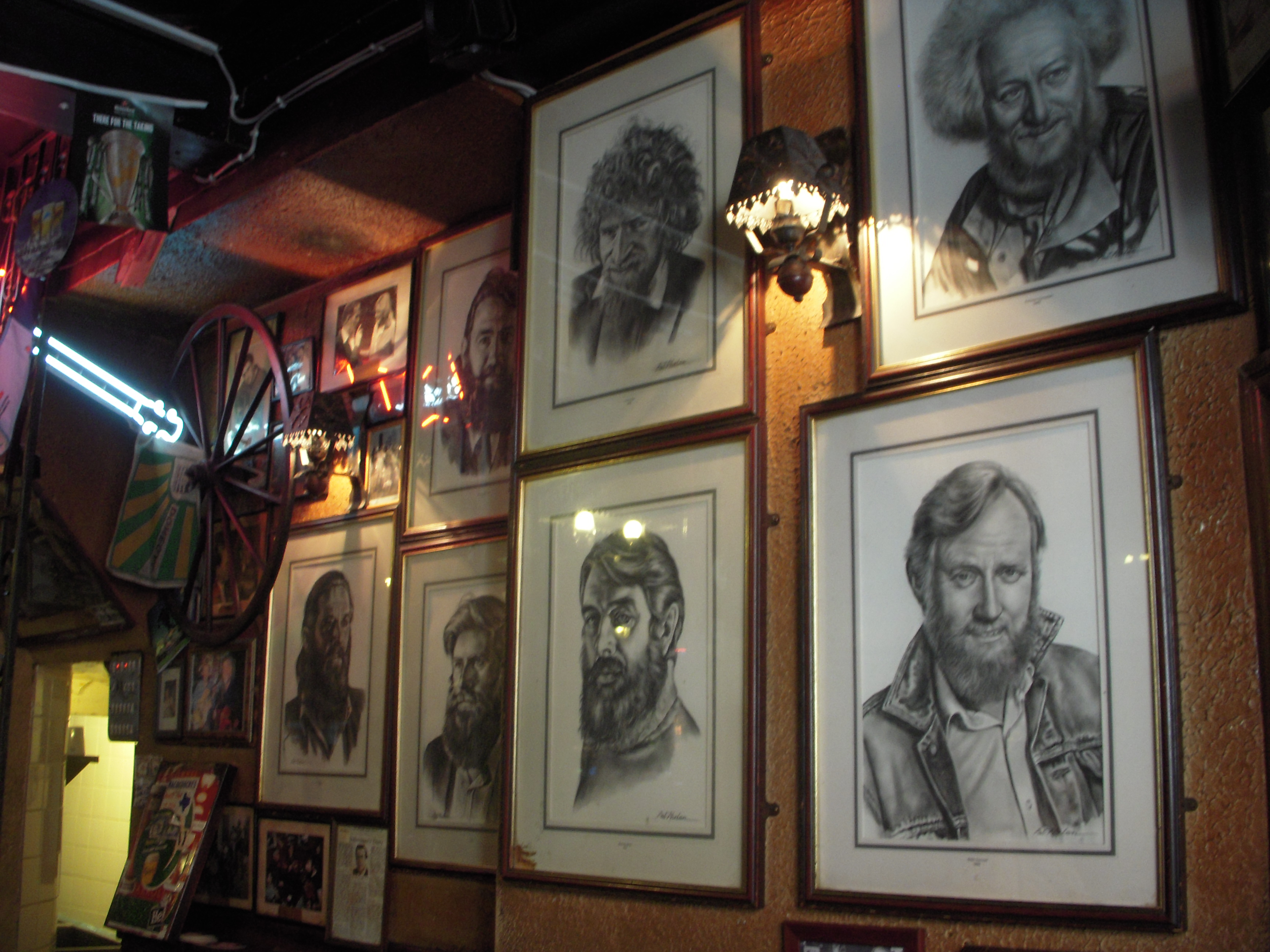 Wall in O'Donoghue's in Dublin, birthplace for The Dubliners, april 2011